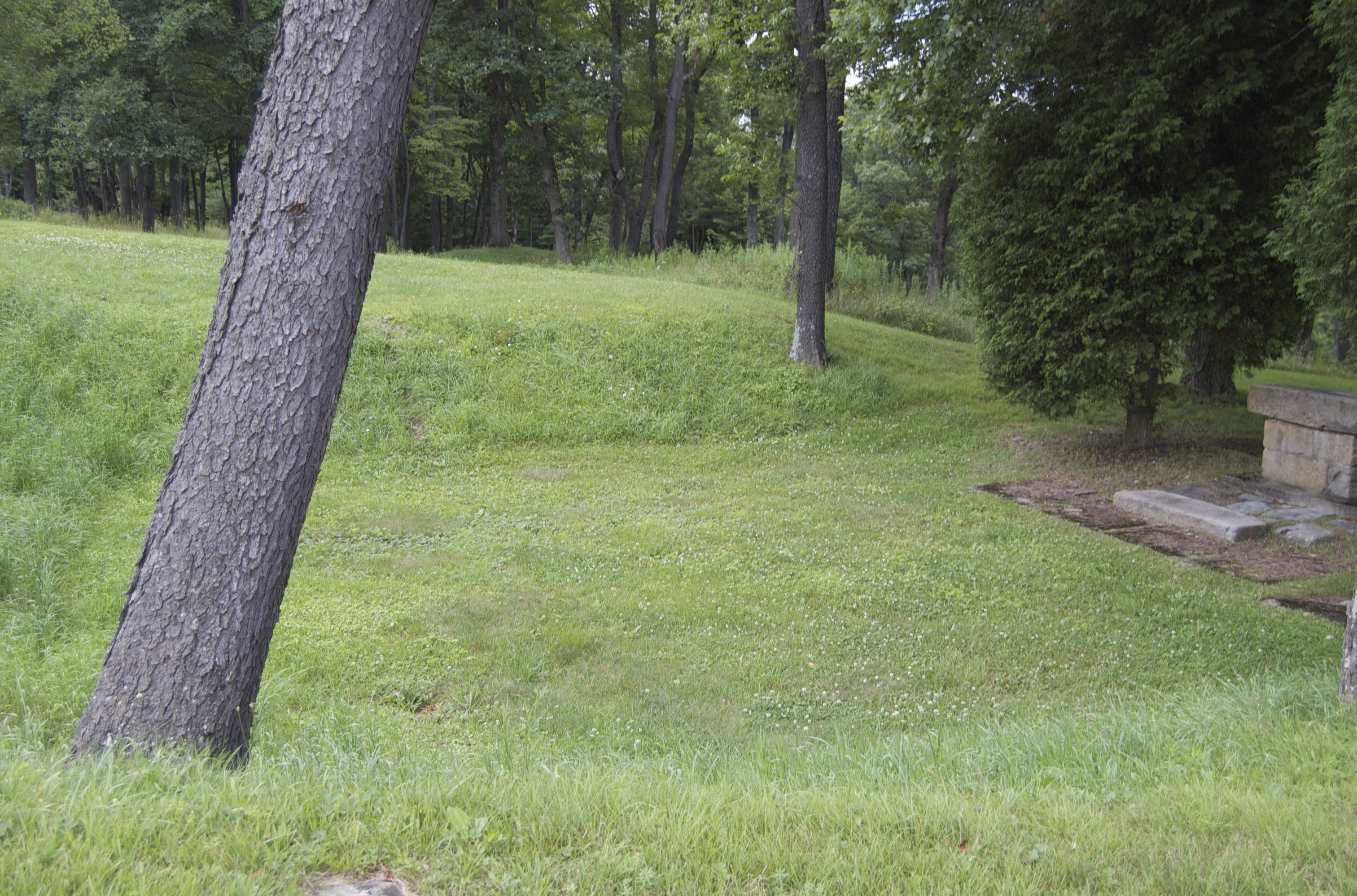 The site of the Methodist church in Pithole, Pennsylvania. A stone altar was constructed in 1959 as a memorial.